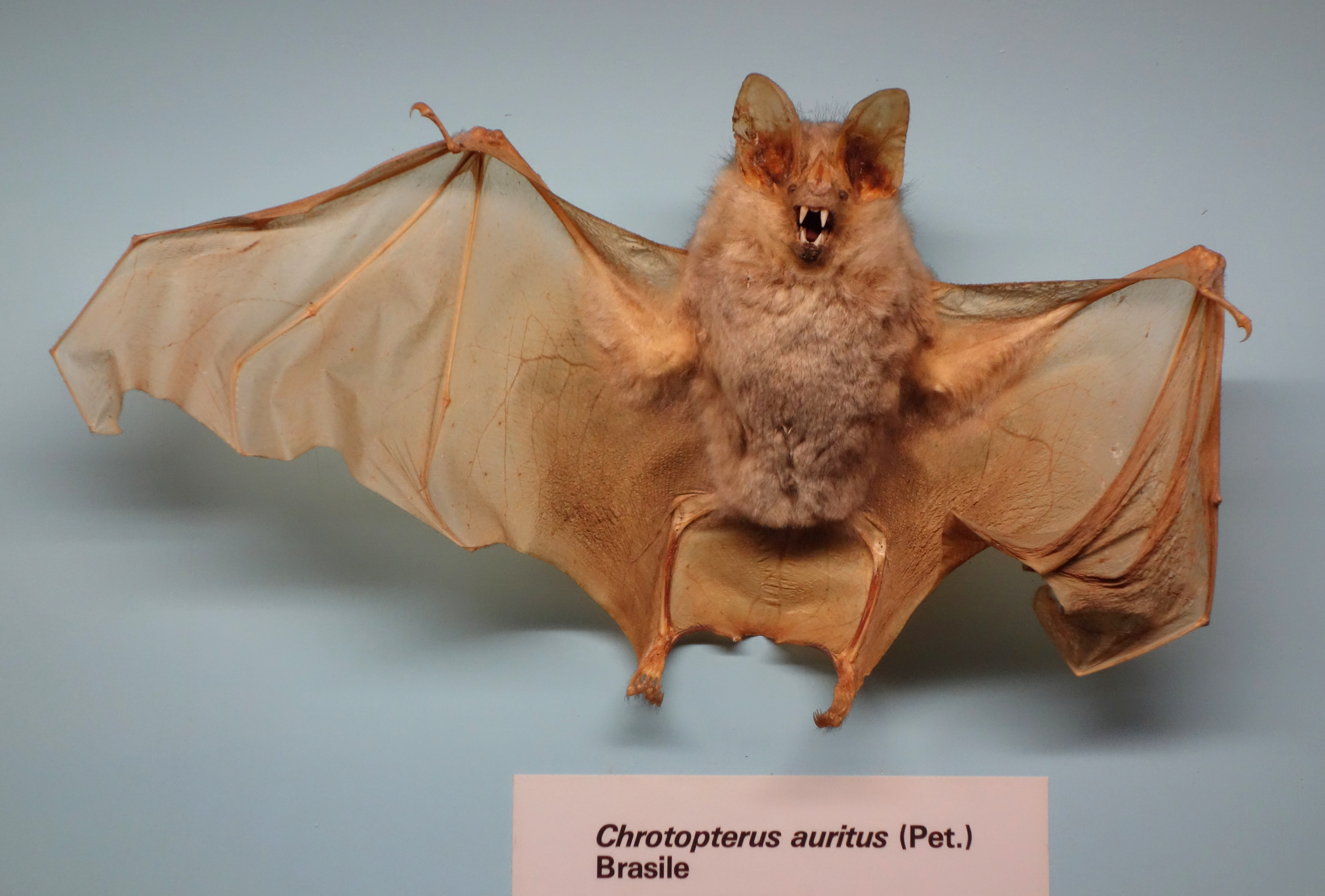 Exhibit in the Museo Civico di Storia Naturale di Genova, Via Brigata Liguria, 9, 16121, Genoa, Italy.